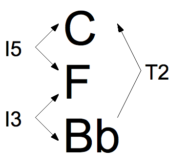 Klumpenhouwer network inversion chord